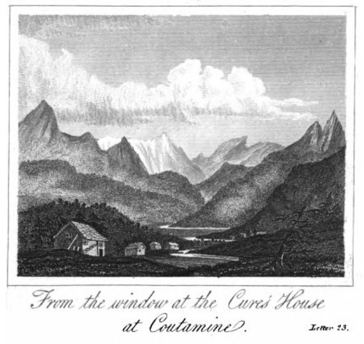 From the window at the Cures House at Contamines-Montjoie (sic. : "Coutamine")